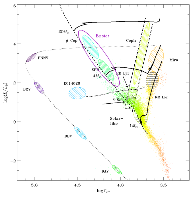 HR Diagram showing different type of stars. Be stars are located on the Main Sequence, and more particularly on beta Cep and SPB stars area.